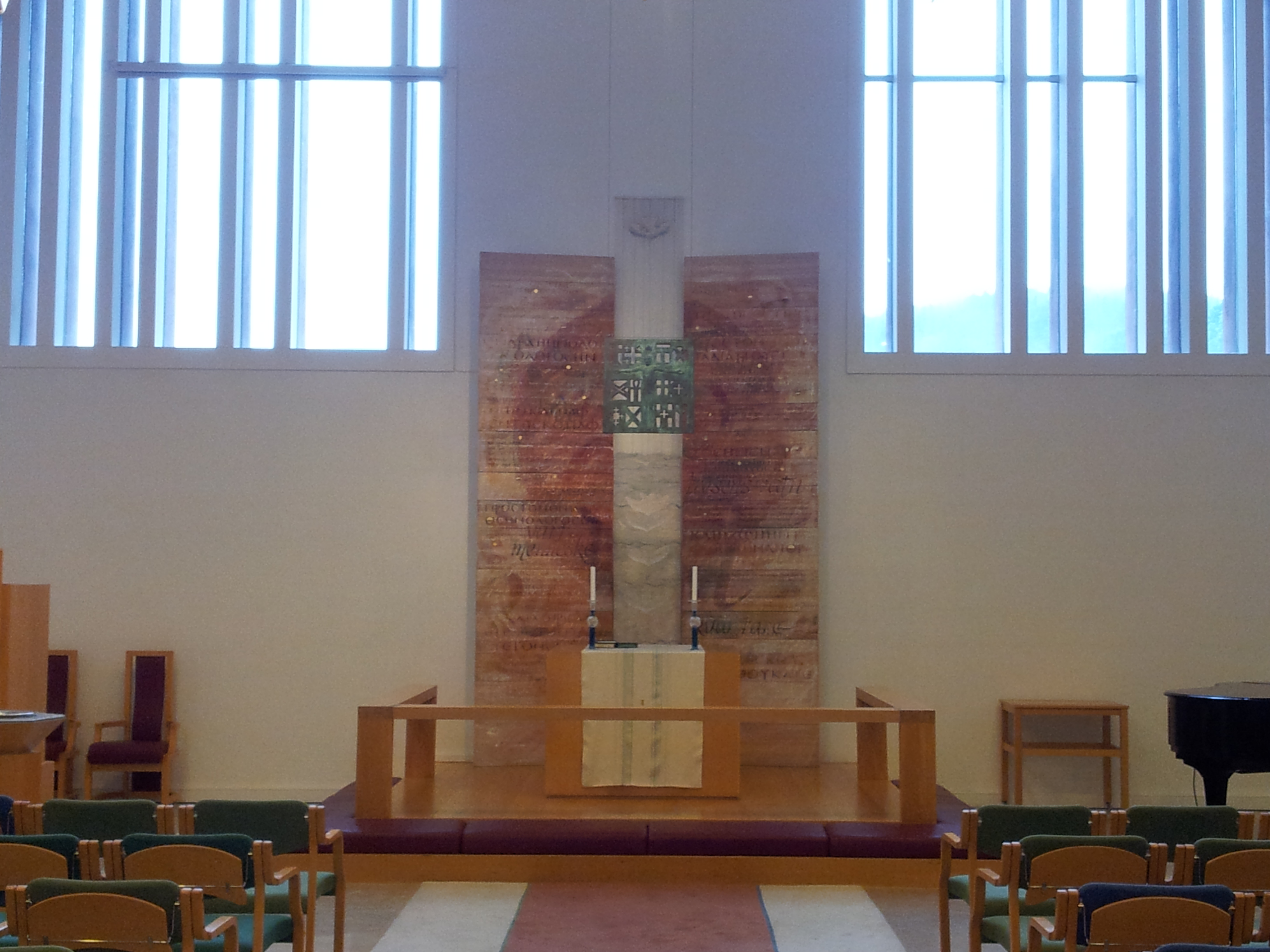 Altar and altar piece in Ostereide church, Norway